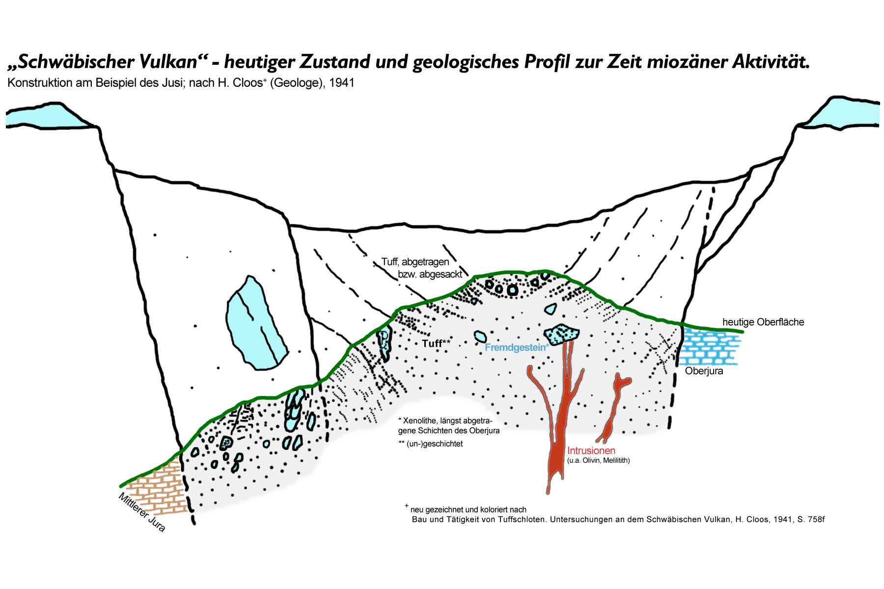 Geological profile of the Miocene “Swabian volcano”, Middle Swabian Alb, mapping present and past developments. This reconstruction is the result of extensive field studies in the thirties, during which the second largest volcano, the Jusi and others, had several excellent outcrops. 1941 the geologist Hans Cloos published a comprehensive paper and defined the term “Schwäbischer Vulkan” for the “Urach-Kirchheimer Vulkangebiet”.